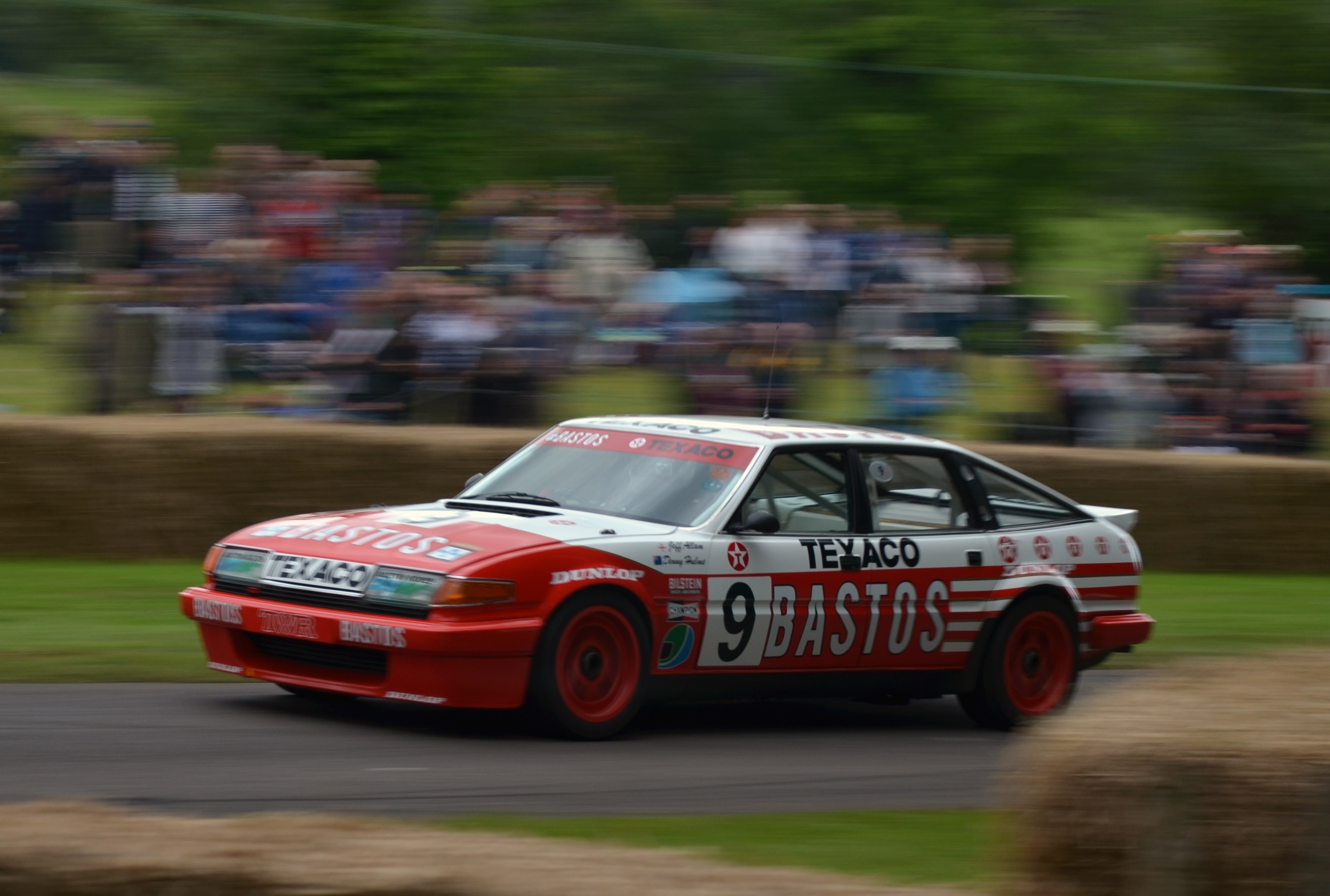 Rover Vitesse TWR Goodwood